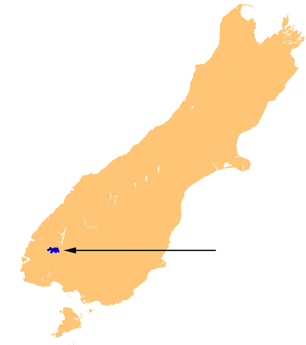 Location map of Lake Manapouri, Southland, New Zealand